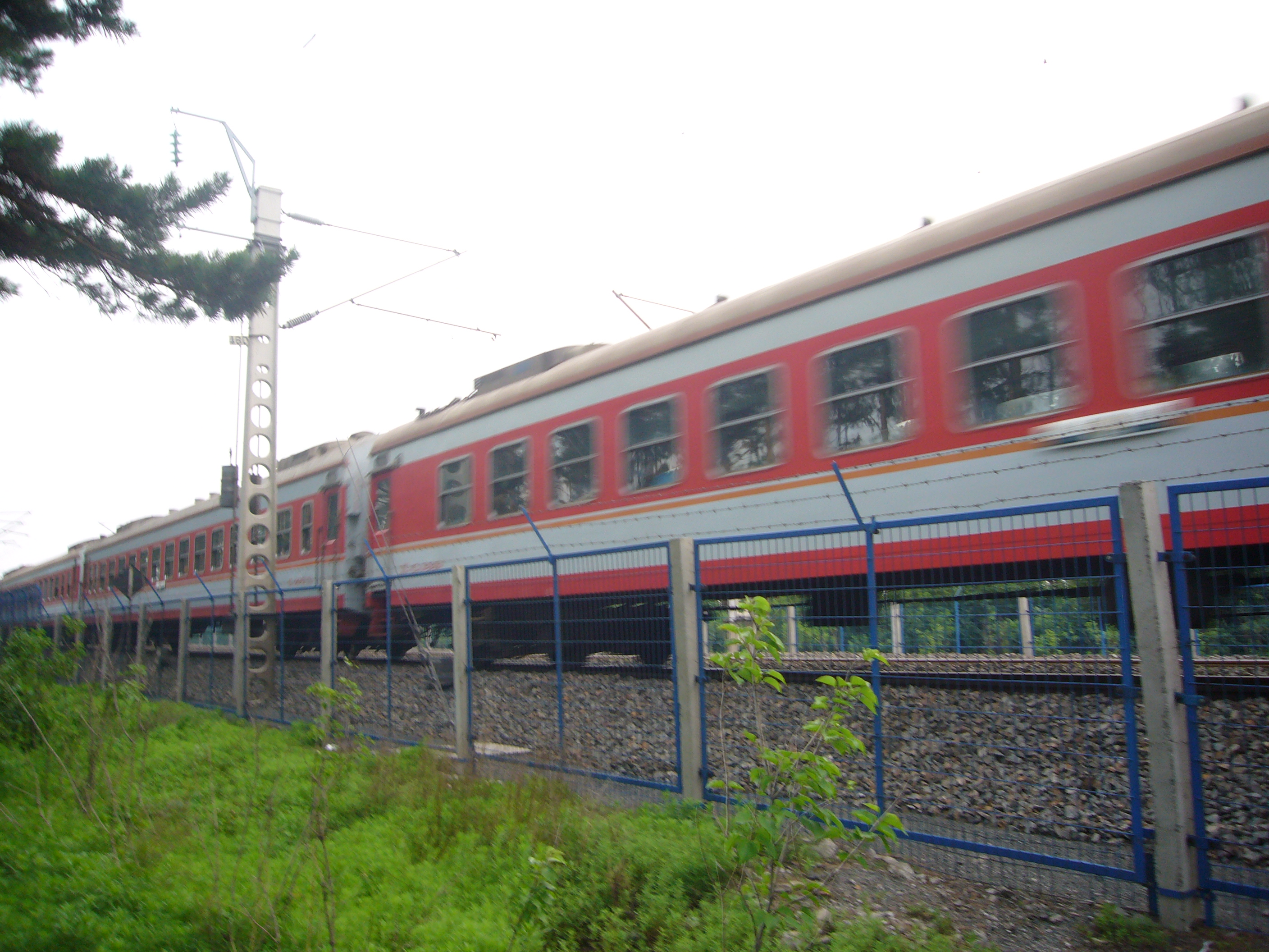 Took by Tzai Chinchi in Harbin